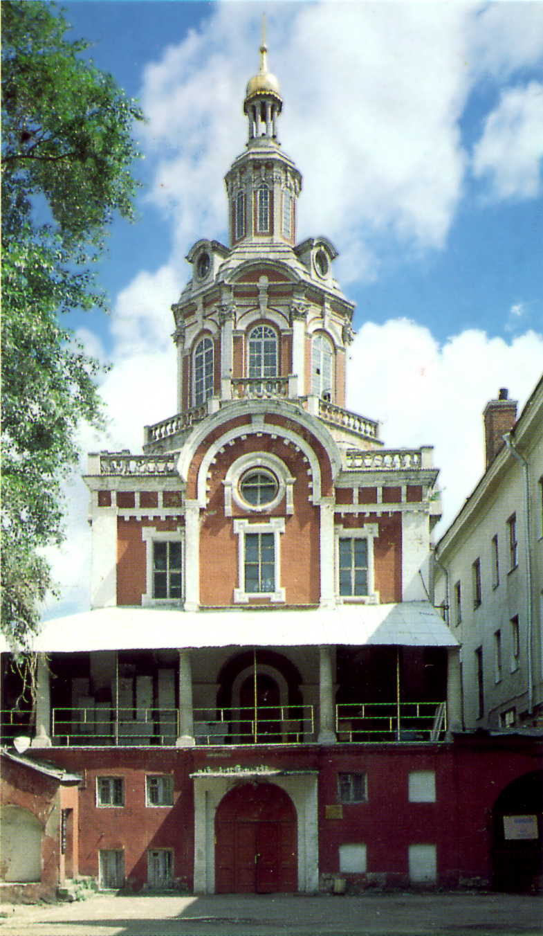 Moscow Slavic-Grrek-Latin Academy. Today.